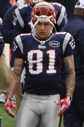 Aaron Hernandez of the New England Patriots